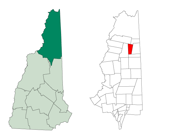 Map of a municipality in Coos County, New Hampshire